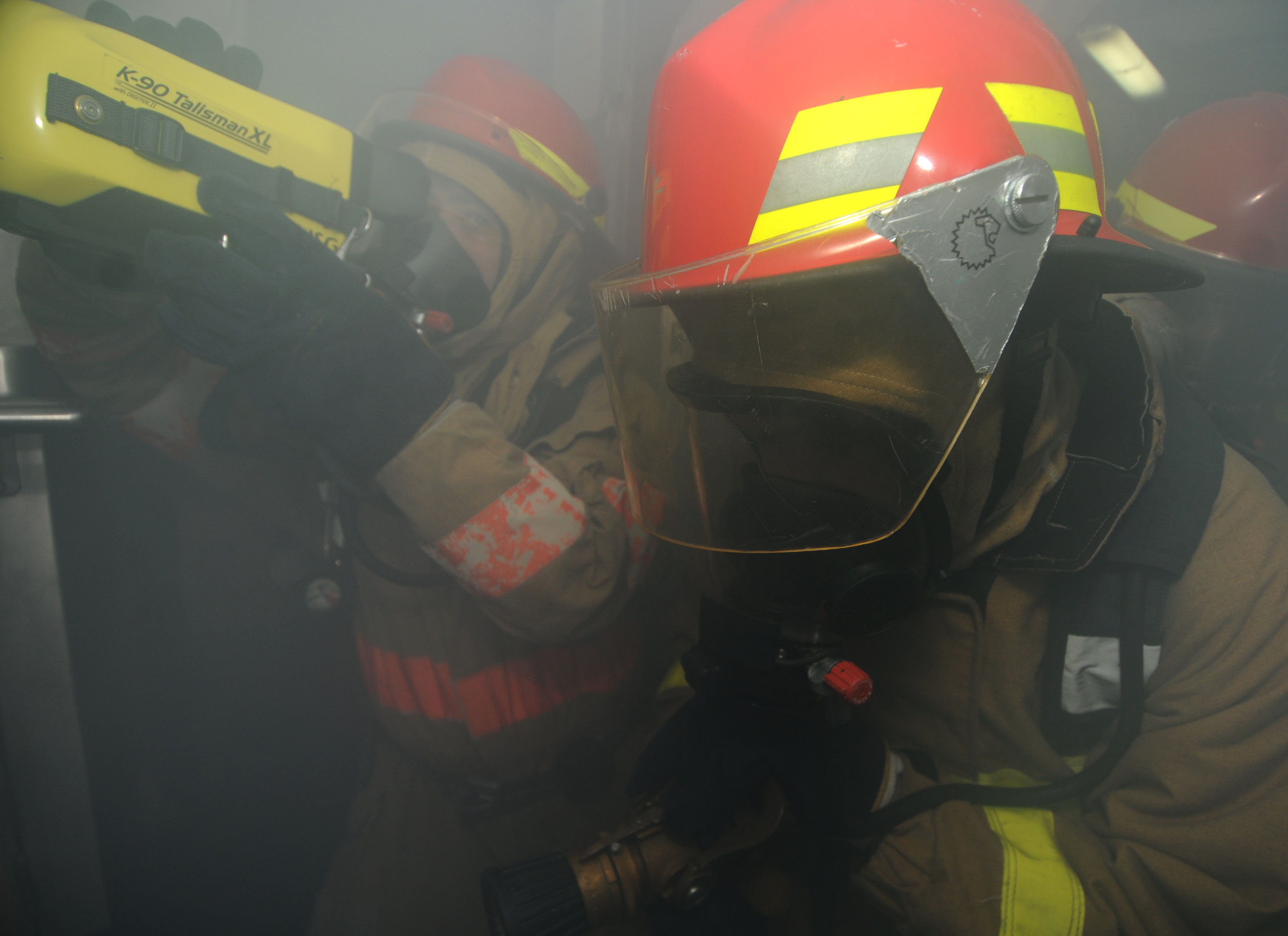 Gulf of Oman (Dec. 15, 2011) A firefighting team enters a smoke-filled room to extinguish a mock fire during a general quarters drill aboard the multipurpose amphibious assault ship USS Bataan (LHD 5). Bataan is the command ship of the Bataan Amphibious Ready Group and is conducting maritime security operations and theater security cooperation efforts in the U.S. 5th Fleet area of responsibility. (U.S. Navy photo by Mass Communication Specialist 3rd Class James Turner/Released)